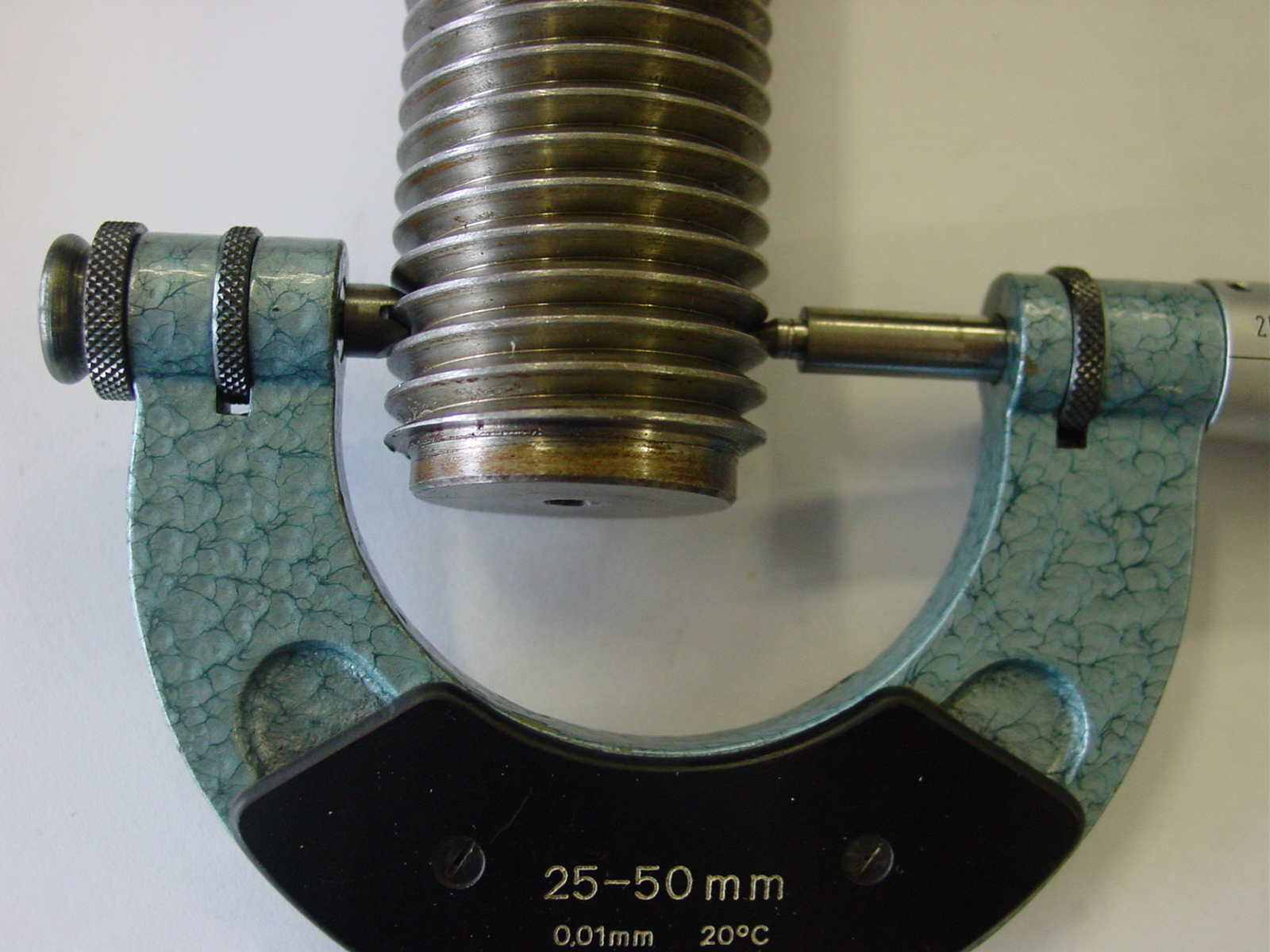 detail screen Thread Micrometer